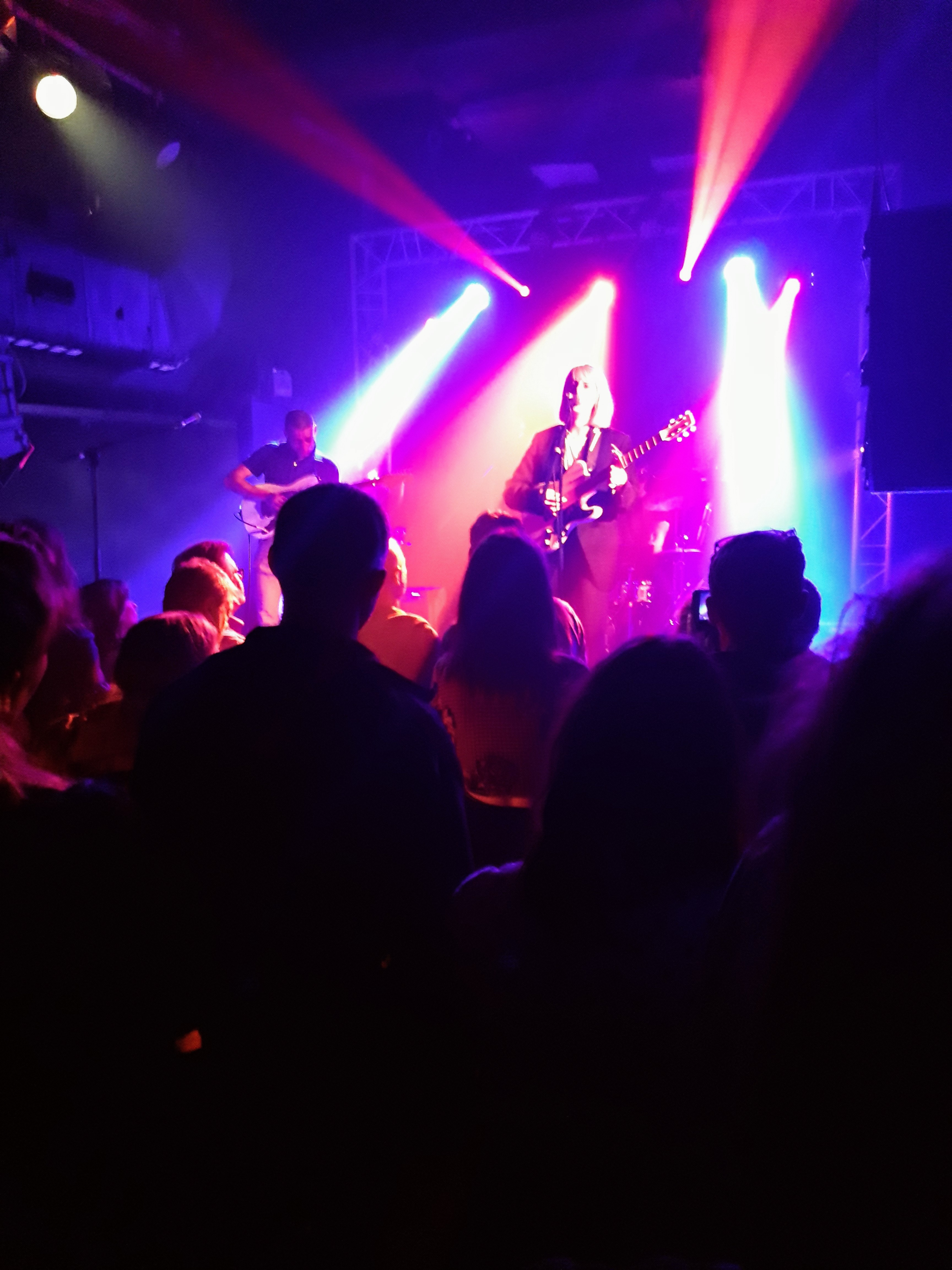 Musician Fenne Lily performing a support slot for Lucy Dacus, Bristol, October 2018